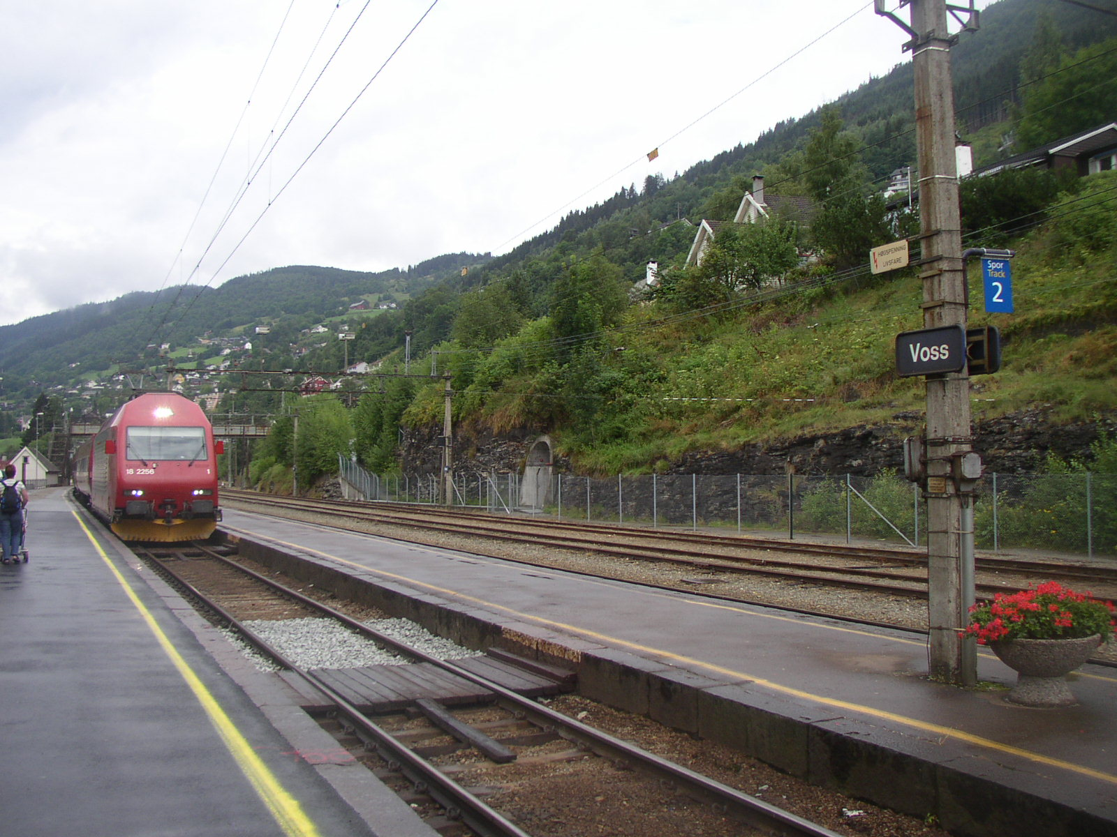 Train Bergen - Oslo, at departure fom at 11:39, arriving in the station on July, 31st 2006. Photo personnelle.